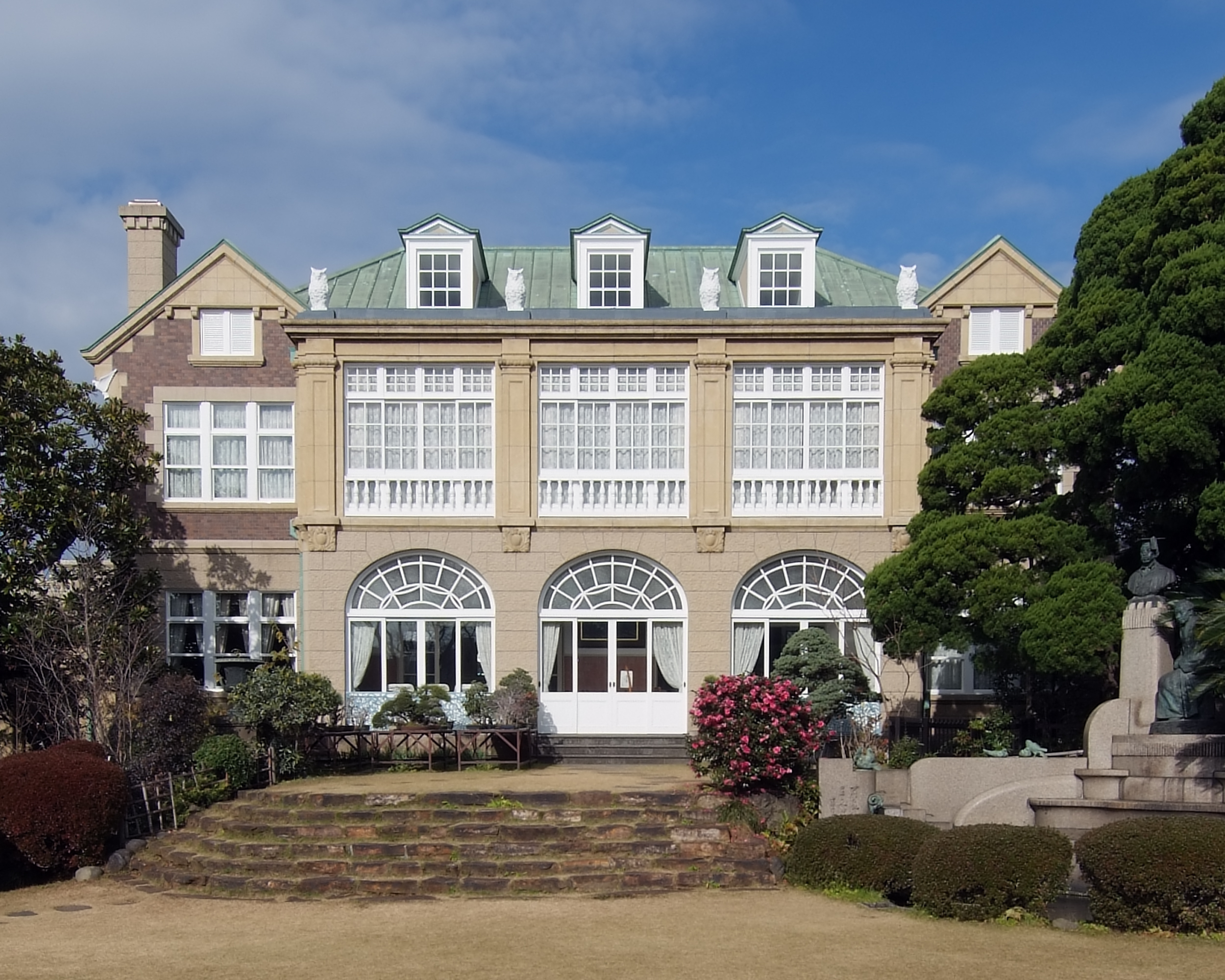 Hatoyama Hall (鳩山会館 Hatoyama Kaikan) is a hall which was a home of Ichiro Hatoyama and his famiry.The hall is located at Otowa, Bunkyo, Tokyo, Japan.